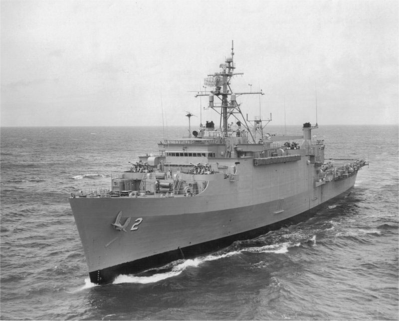 The U.S. Navy dock landing ship USS Vancouver (LPD-2) underway off the coast of Oahu, Hawaii (USA), on 4 February 1967.